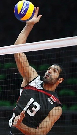 Volleyball, match between Iran and Egypt at the Olympic Games in 2016